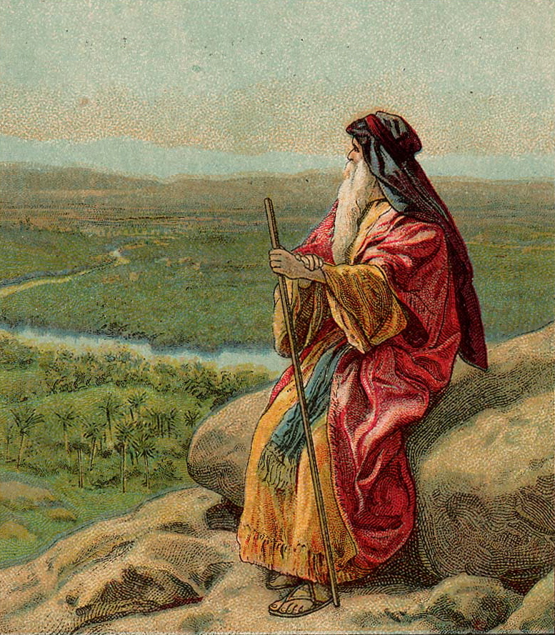 The Death of Moses, as in Deuteronomy 34:1-12, illustration from a Bible card published 1907 by the Providence Lithograph Company